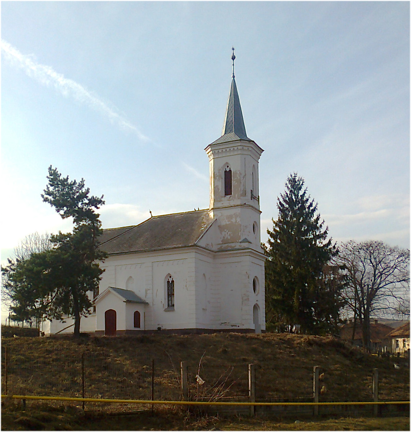 Reformed church in Cămărașu, județul Cluj, Roma